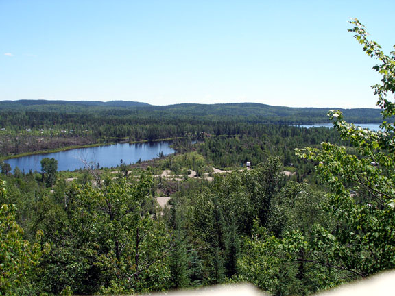 Raven Lake on the left, with Halfway Lake on the right